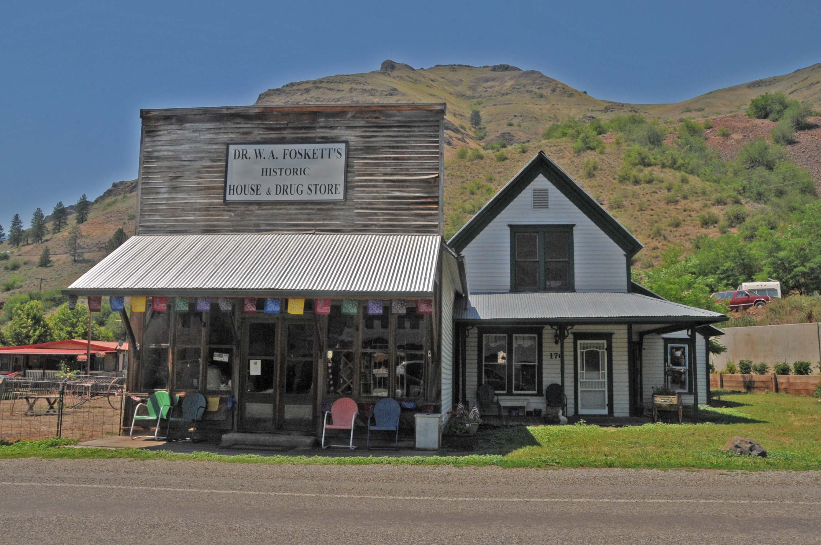 DR. WILSON A. FOSKETT BEGAN HIS MEDICAL PRACTICE IN WHITE BIRD IN 1897. FOLLOWING HIS DEATH THEIR DRUG STORE WAS MOVED AND ATTACHED TO HIS WIDOW’S HOME SO SHE COULD RUN IT AS A SUNDRIES SHOP AND STILL CARE FOR THEIR CHILDERN.